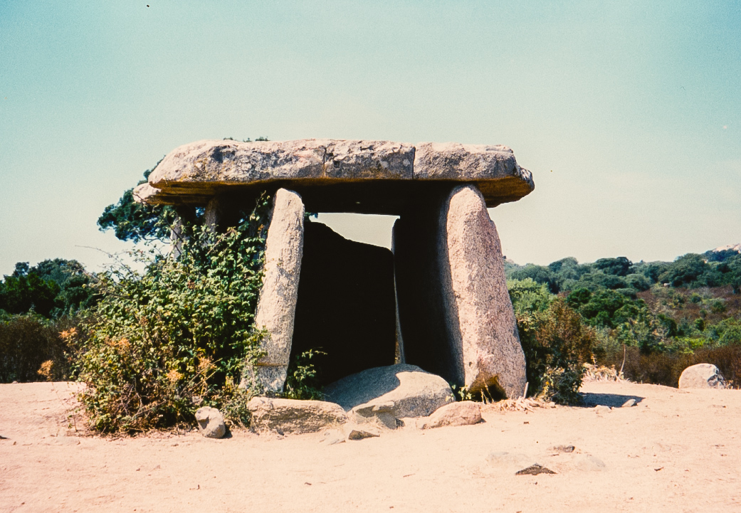 Megalithic monument called Dolmen of Fontanaccia (Stazzona di a Funtanaccia) in Corsica (Corse-du-Sud), 1998